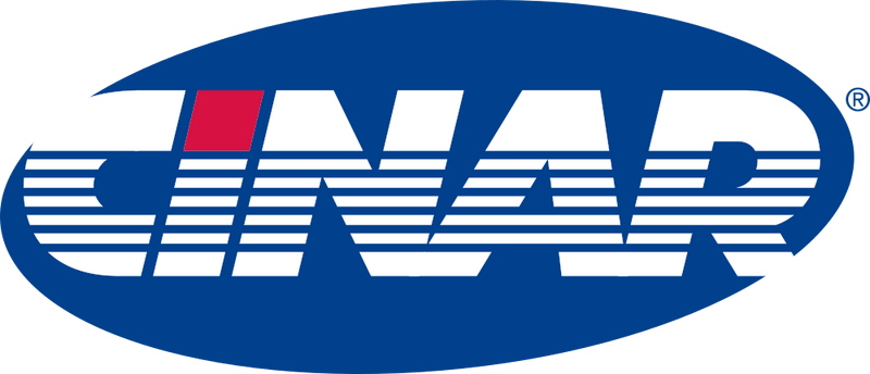 Former CINAR logo.